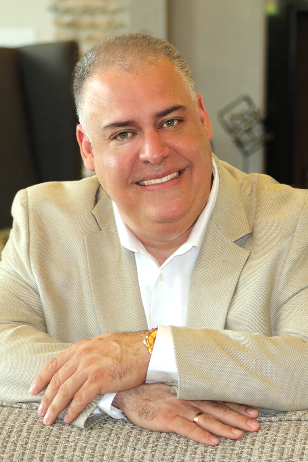 Christian Sebastia on 2018